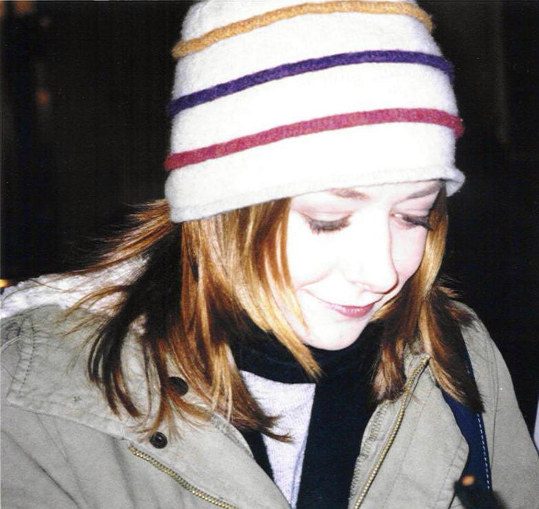 Actress Alyson Hannigan, outside the stage door after "When Harry Met Sally" in London, England in May of 2004.